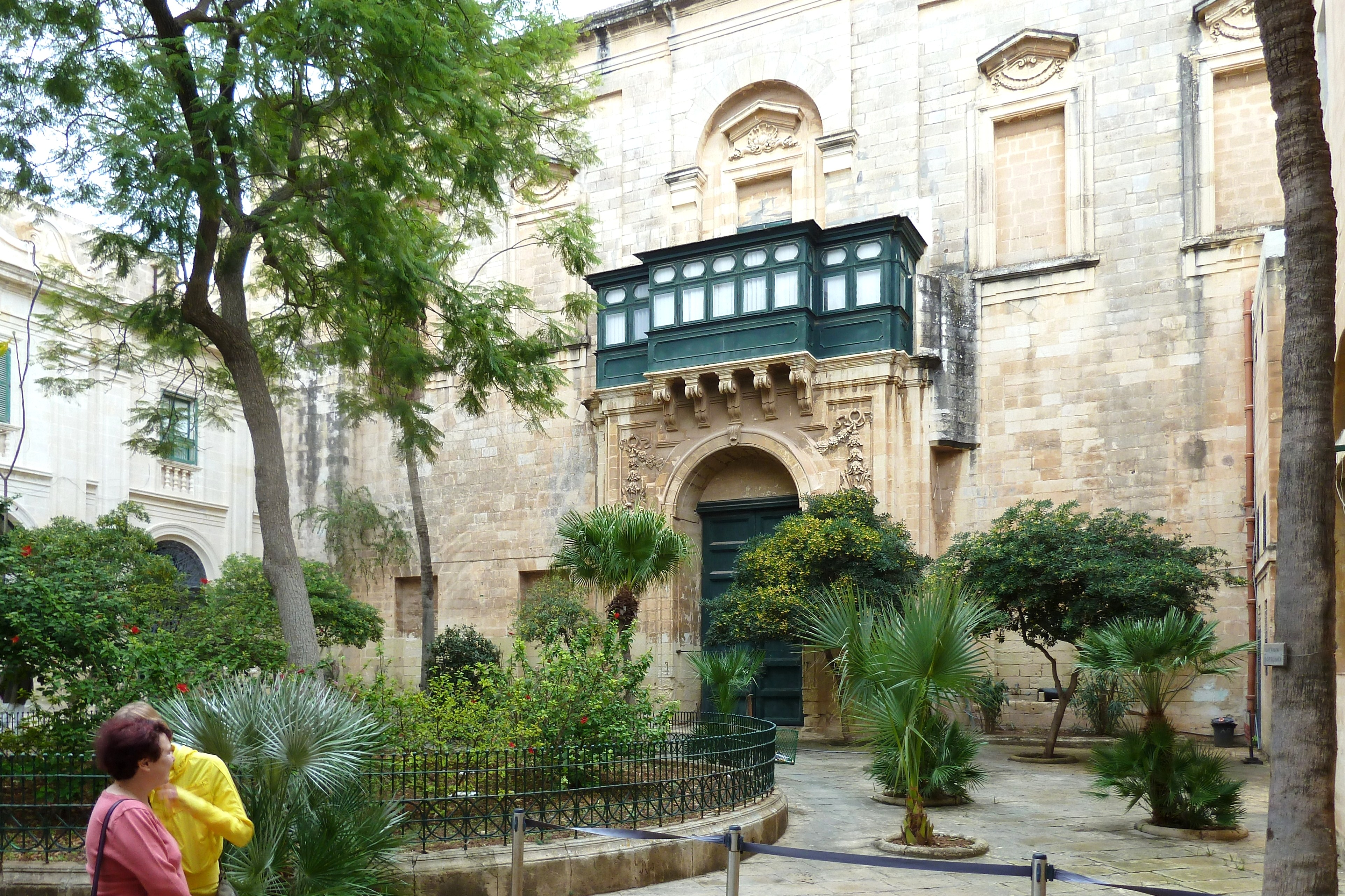 Prince Alfred's Court, Grand Master's Palace in Valletta